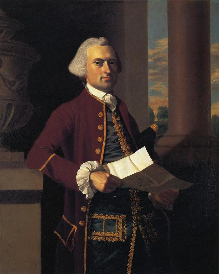 Woodbury Langdon